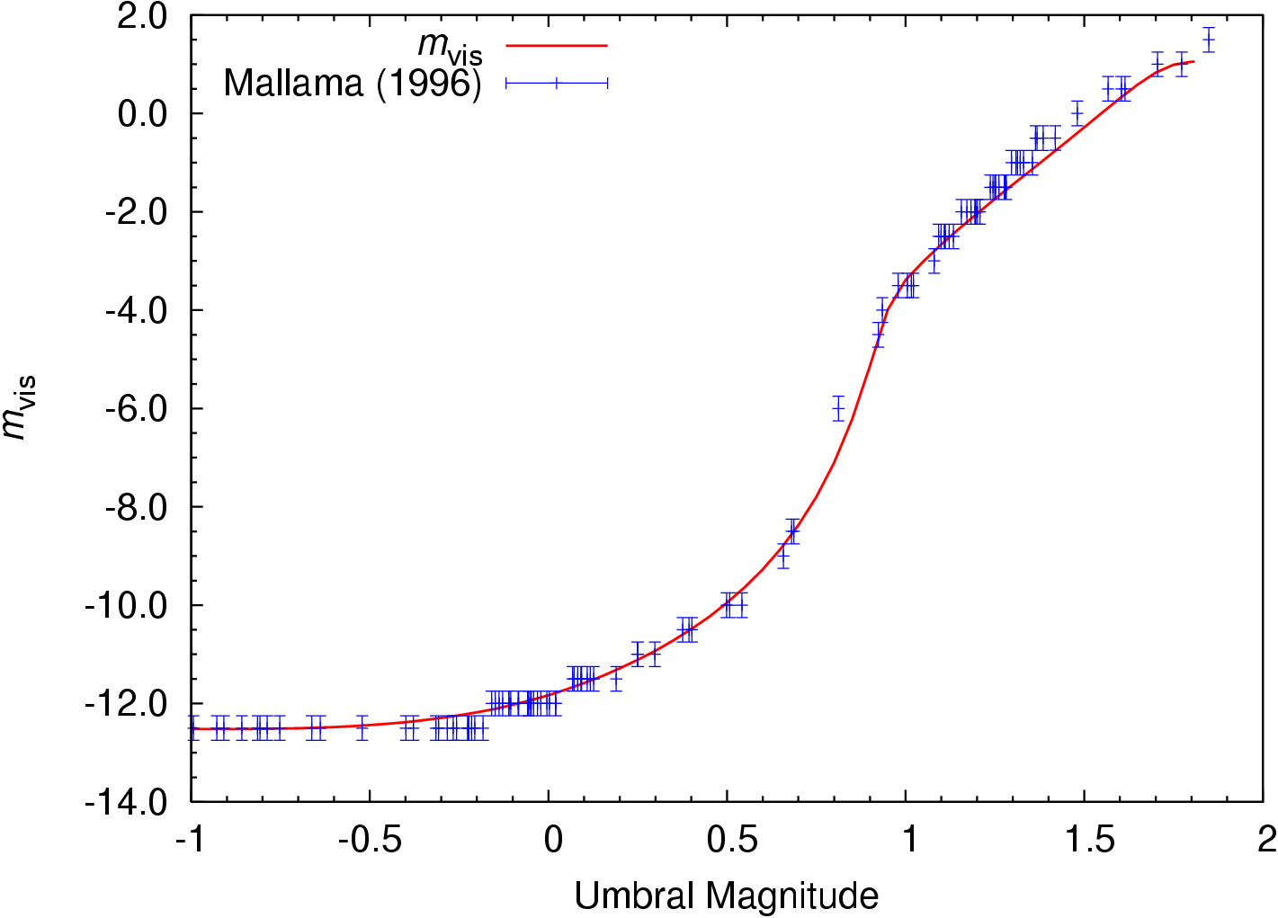 Theoretical lightcurve of a lunar eclipse (using homogenous lunar albedo and distance of 380,000 km). Data from Anthony Mallama for comparison. Errorbars indicate rounding error from Mallama's data. Not indicated (but not necessarily negligible) are errors due to different Earth-Moon-distances (from 357,000 to 408,000 km), and, of course, from the audacious neglection of the Moon's albedo structure. A slight improvement of the upper right part of the curve would arise from a very little increment of dust (about 5% of the dust excess used for Image:Lunar eclipse umbra lightcurve dark arcmins.png).